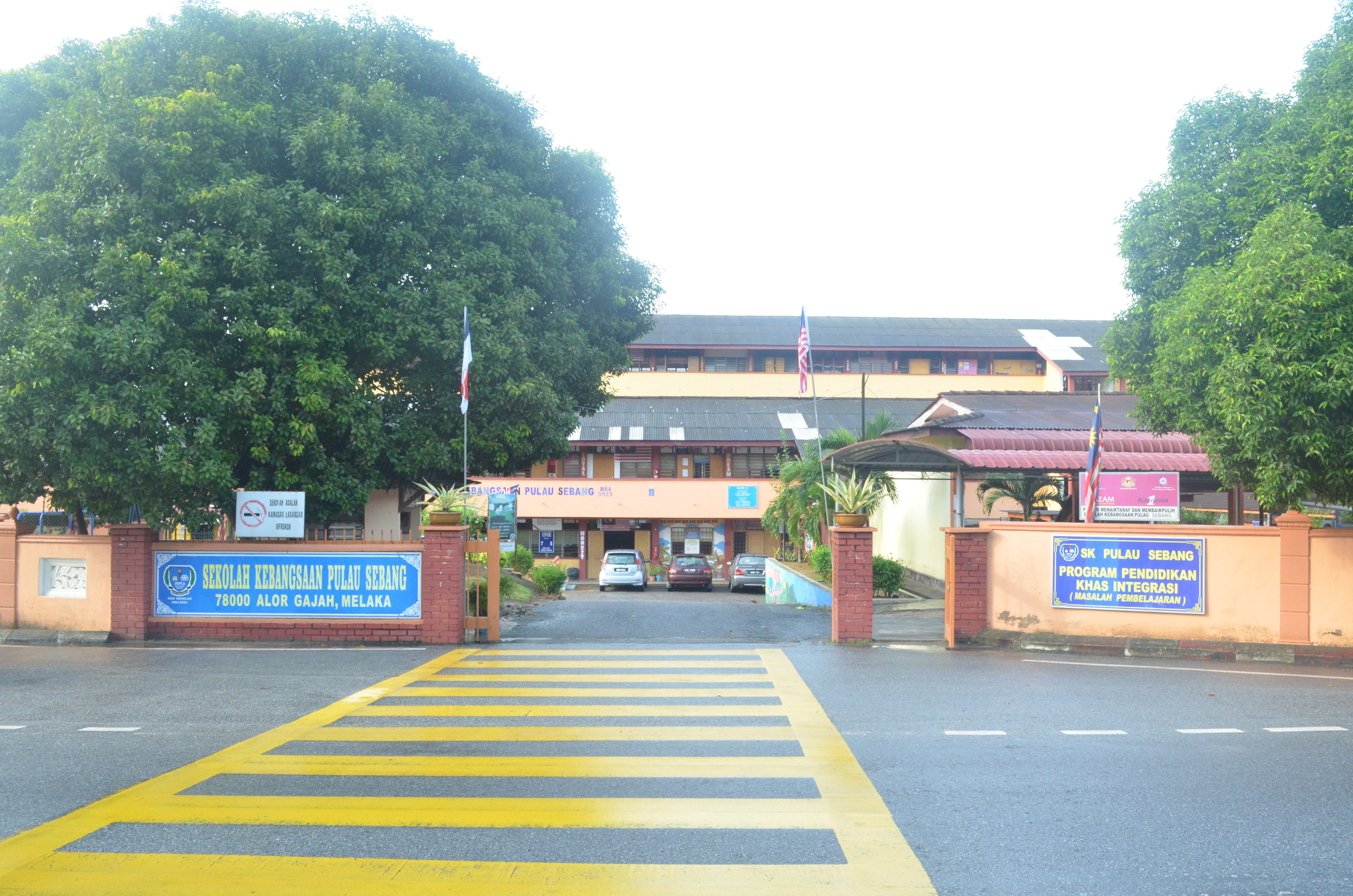 SK Pulau Sebang